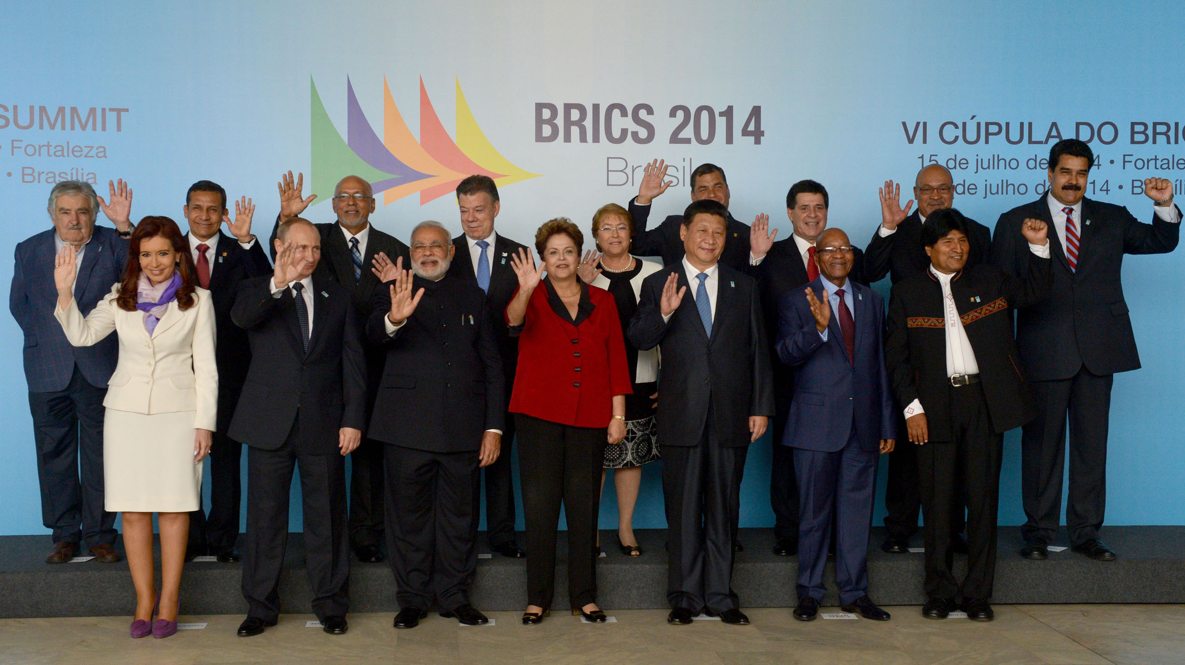 Presidents of Mercosur and BRICS (2014).